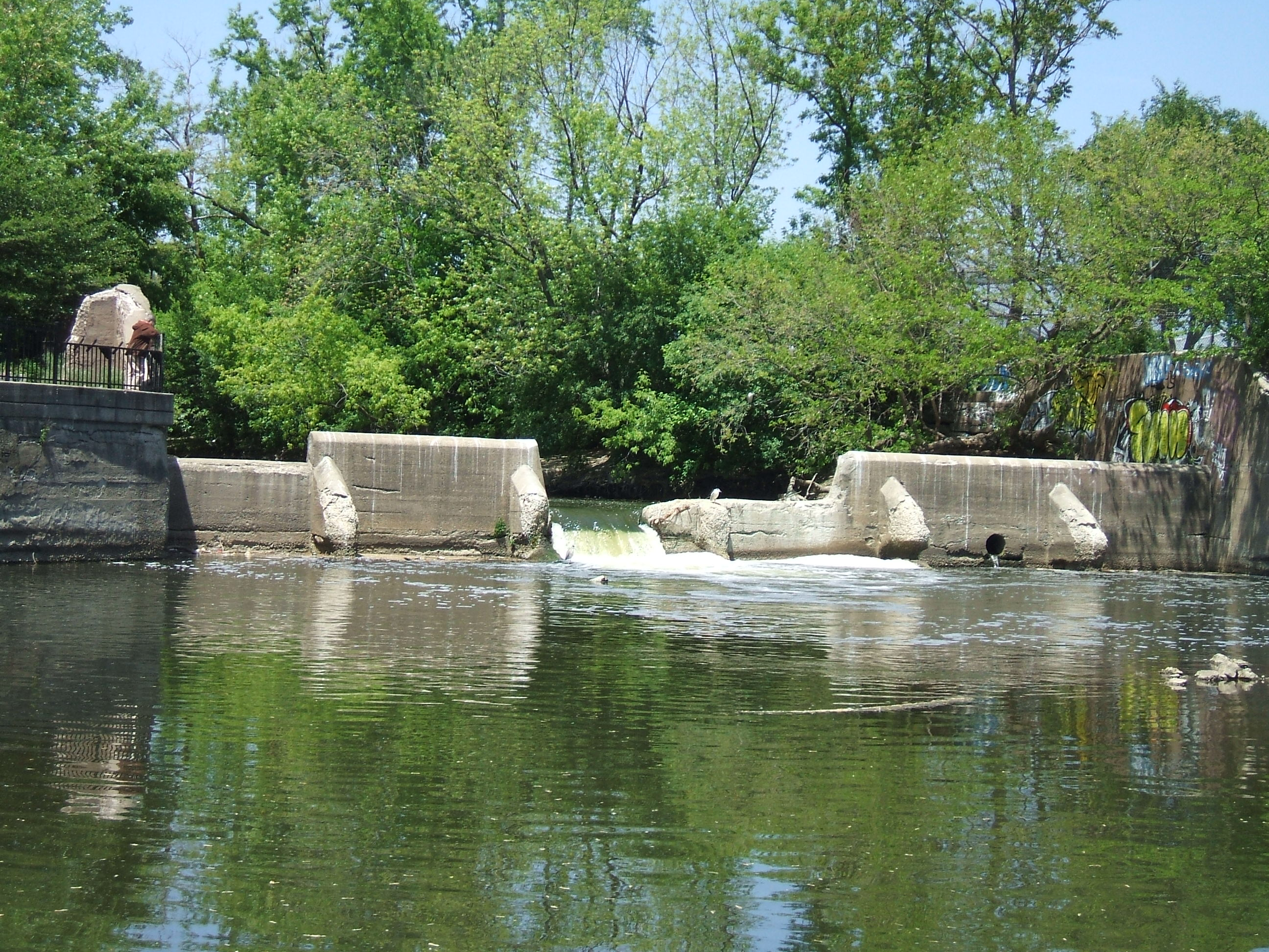 At the south end of the North Shore Channel, the North Branch of the Chicago River flows over a small dam into the confluence. View looking northwest, across the river from River Park in Chicago.